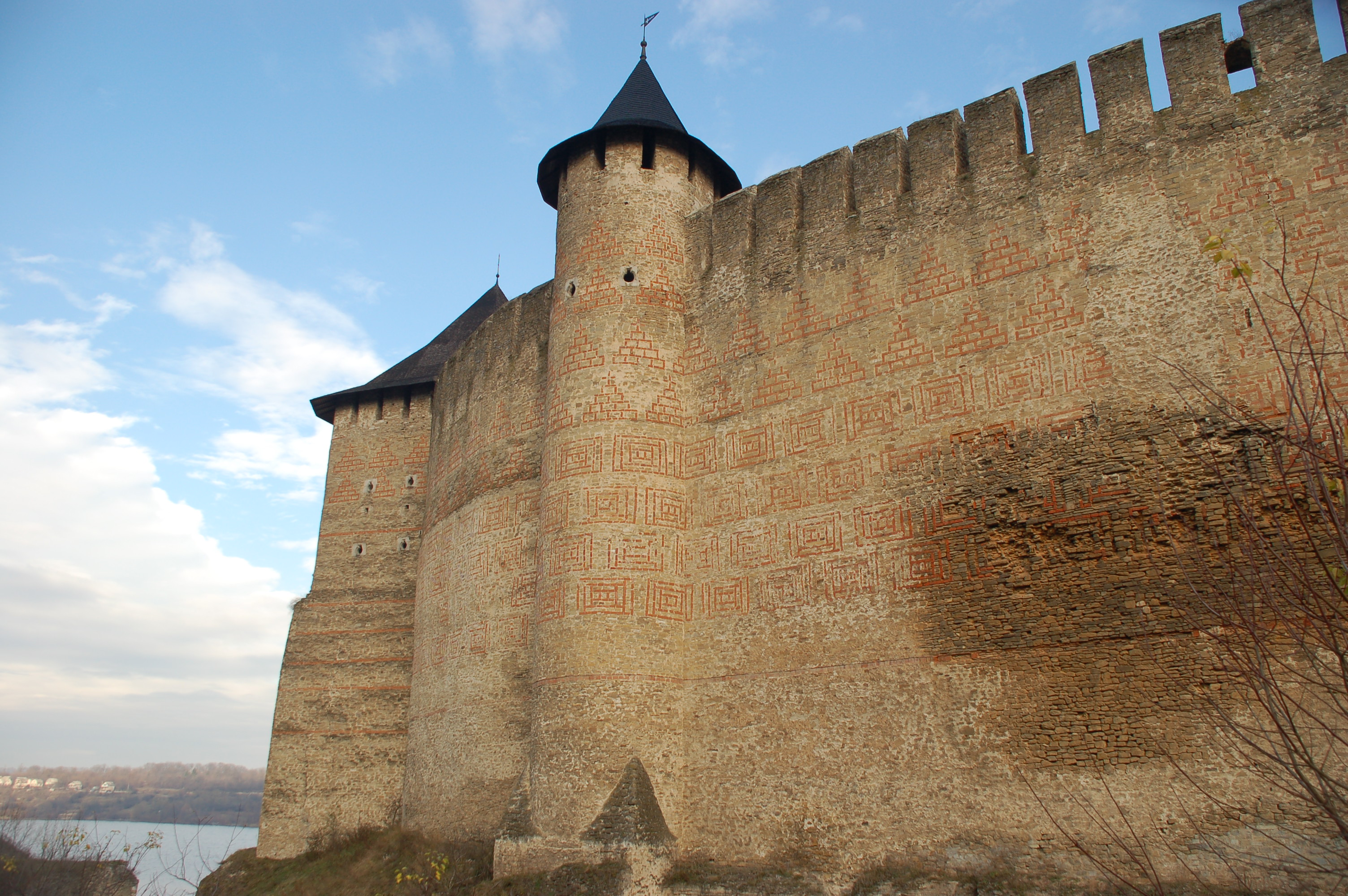 Defense walls, as seen from the outside of the Khotyn fortress